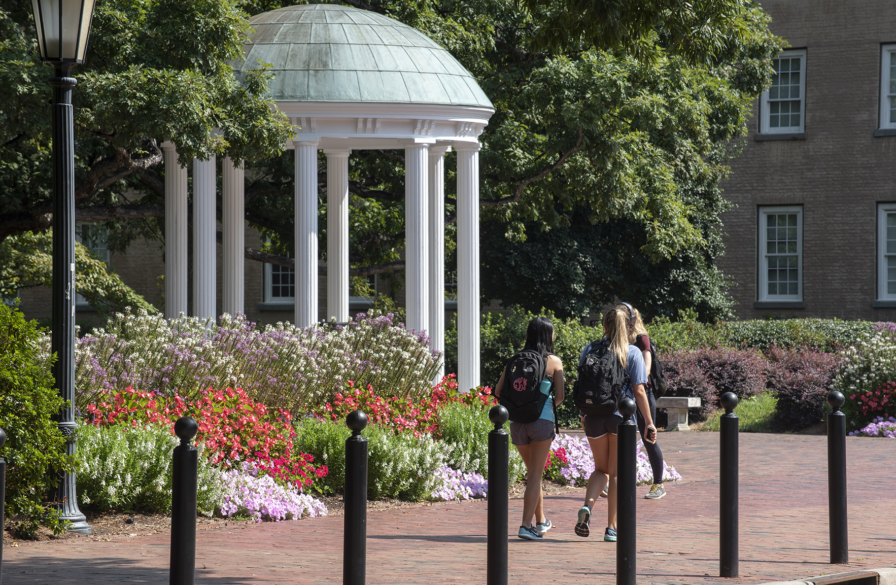 The Old Well at UNC-Chapel Hill with summer flowers